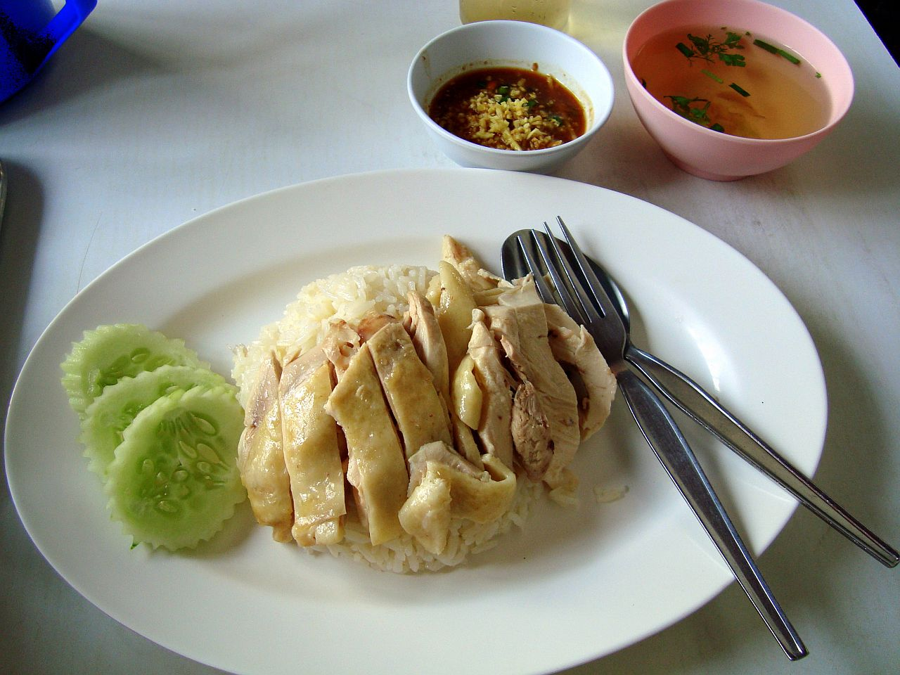 Khao man kai is the Thai version of Hainanese chicken rice. It is rice boiled with garlic and oil in a light chicken broth, and which is served with slices of boiled chicken, a bowl of chicken broth, and, in the Thai version, a dipping sauce containing fermented yellow bean paste, chopped ginger, chopped Thai chilli peppers and thick soy sauce.